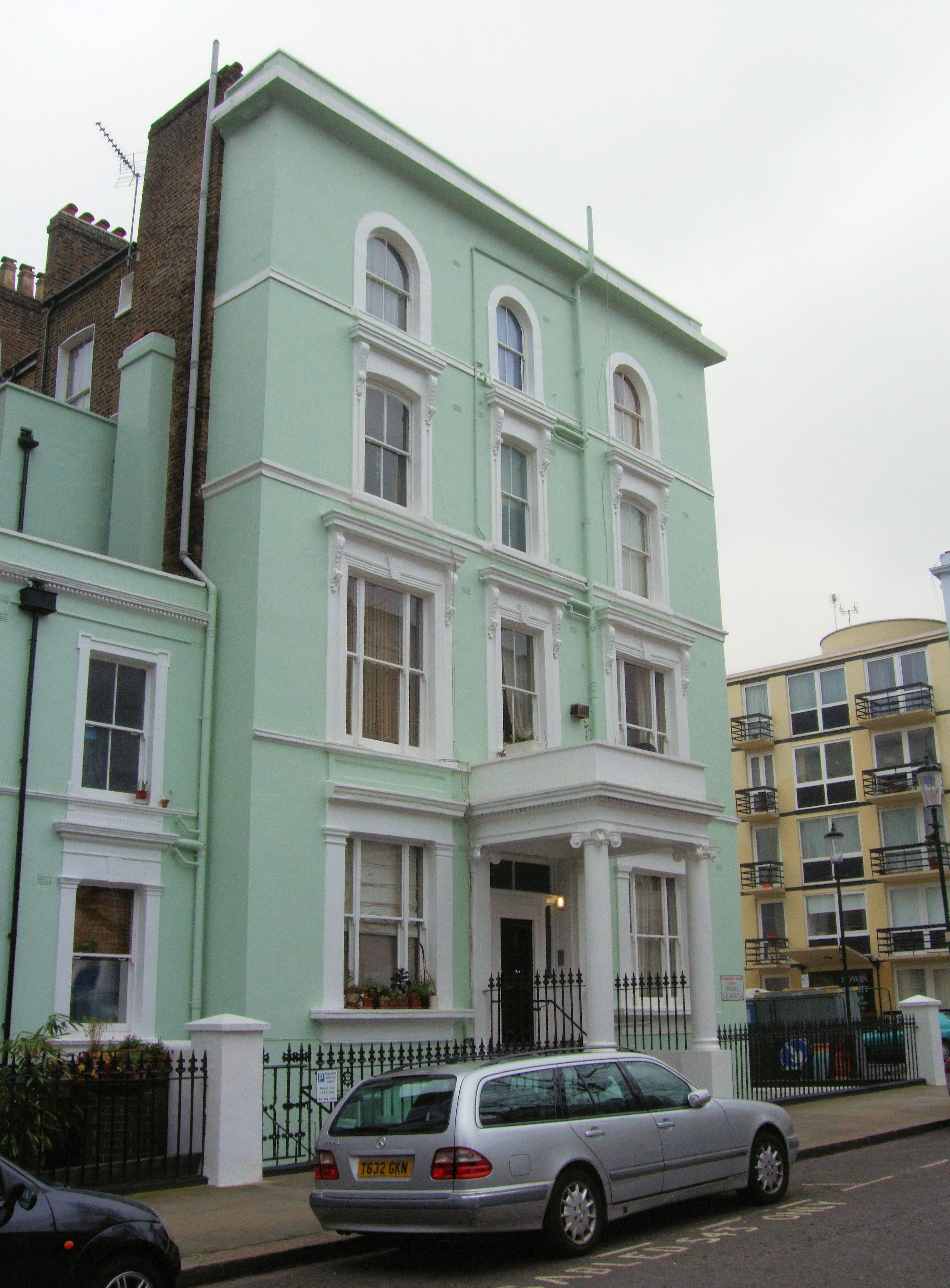 Performance location: The Notting Hill retreat of Turner (Mick Jagger). Exterior shots only - the interiors were shot at 15 Lowndes Square, Knightsbridge.